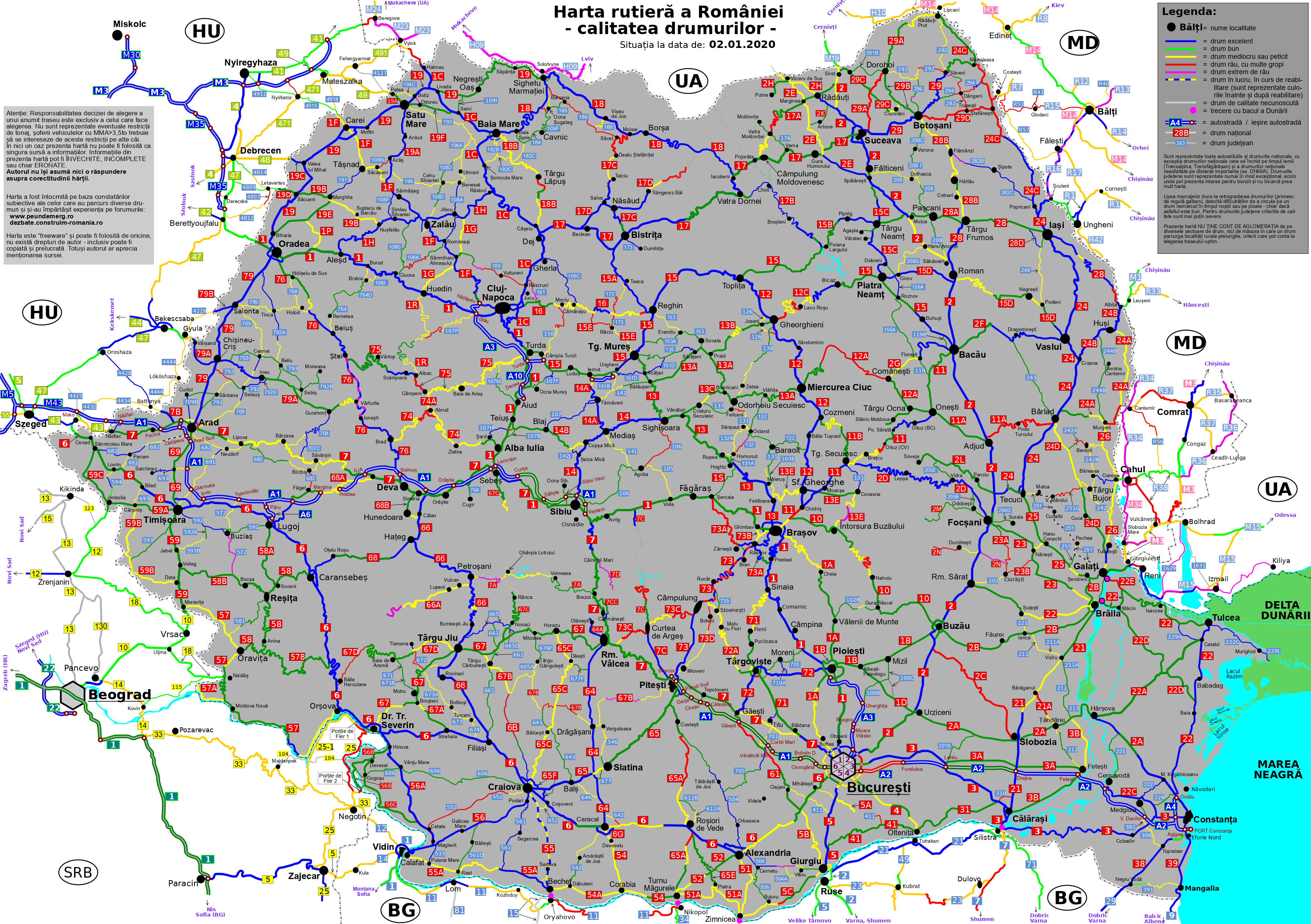 Map of Romanian roads' quality, subjectively evaluated by its author at the end of 2013